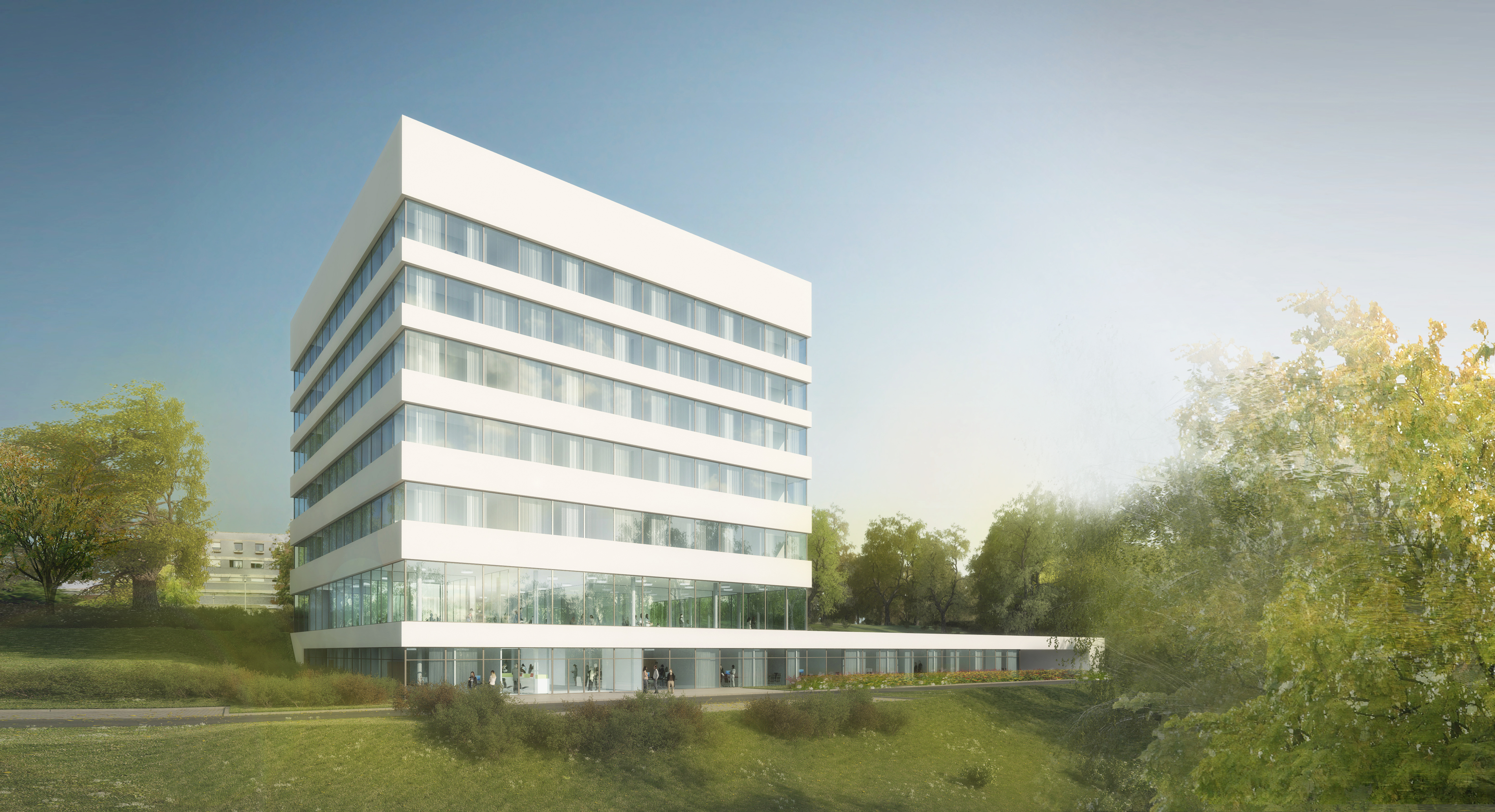 Research and treatment in one facility at the comprehenisve heart failure center, Wurzburg, Germany.